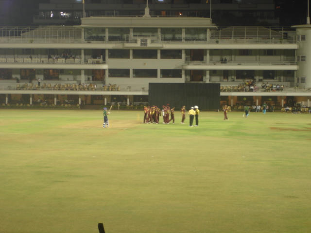 A 20-20 Match being played between Orissa and Railways at the Brabourne Stadium under floodlights. Author : Syed Kashan Mustafa